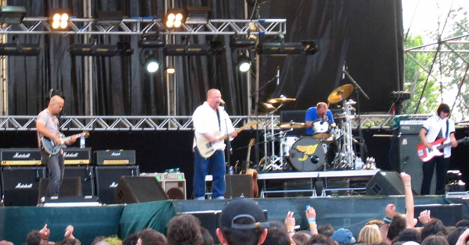 Pixies performing at the Heinekin Jammin Festival on 19 June 2004.